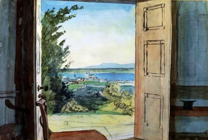 Painting, Old Montreal, Henry William Cotton, About 1848, Watercolour and graphite on paper mounted on board, 26 x 38.4 cm